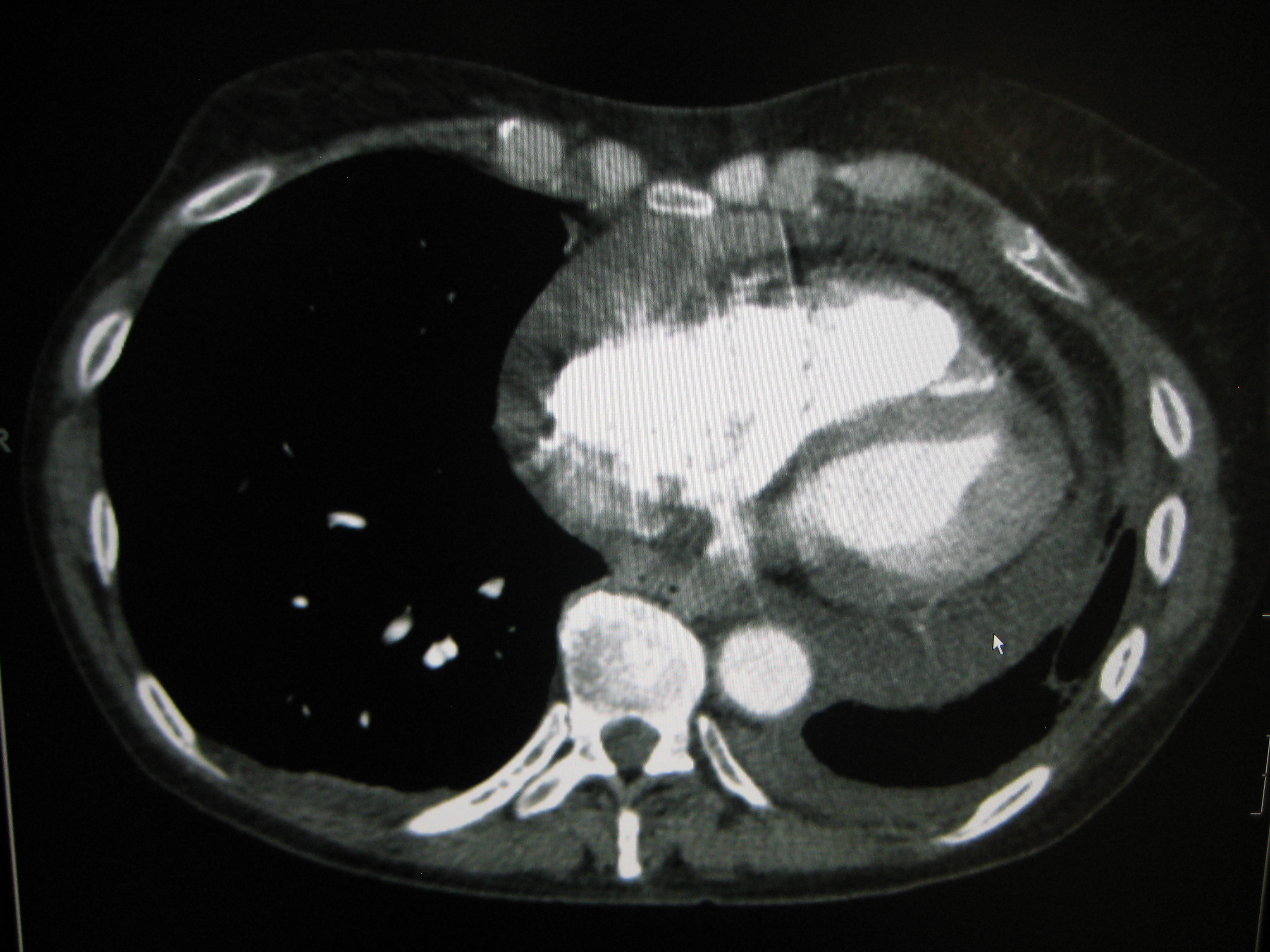 A coronal CT showing a pericardial effusion identified by a white arrow.